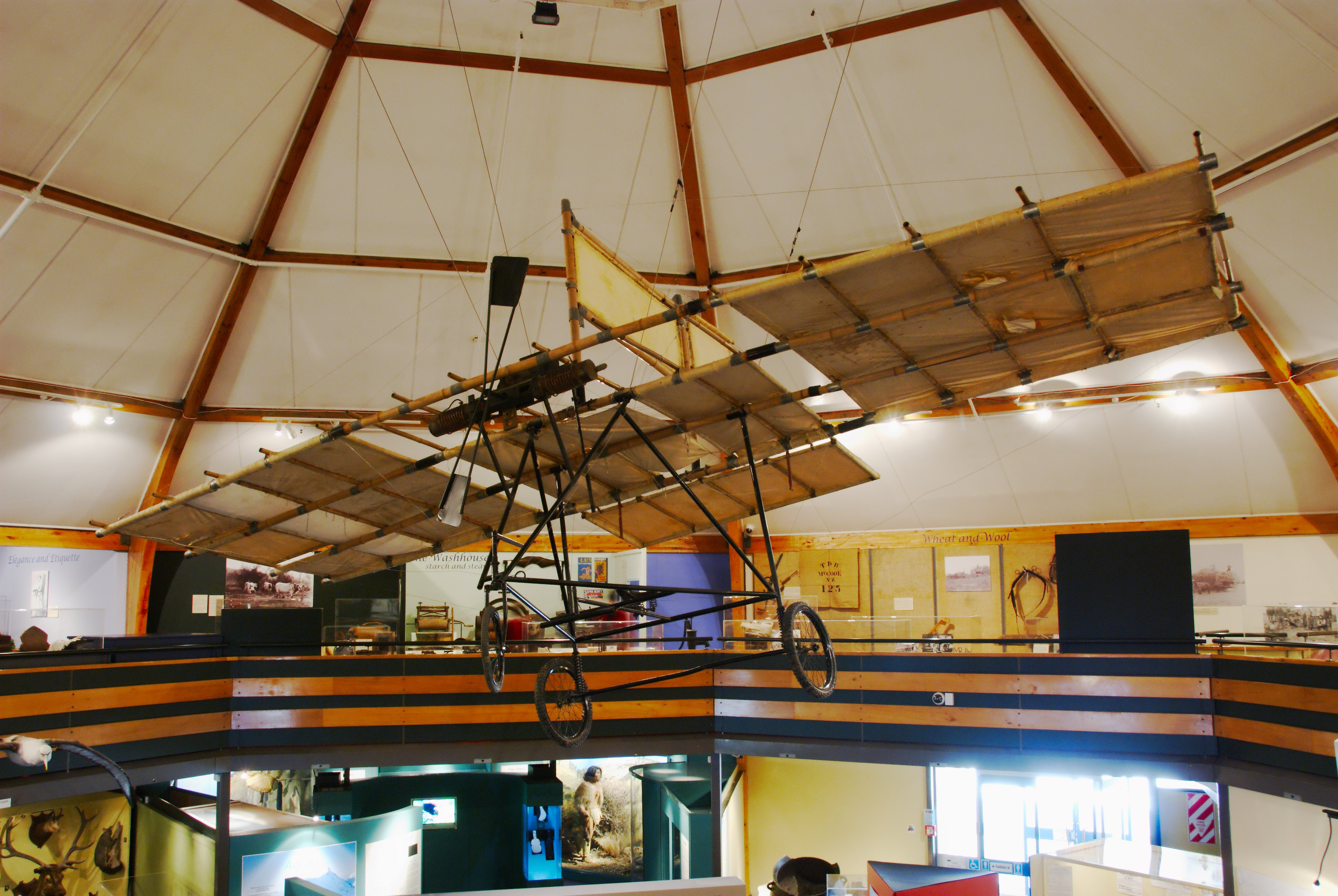 A replica of Richard Pearse's aeroplane on display at the South Canterbury Museum in Timaru